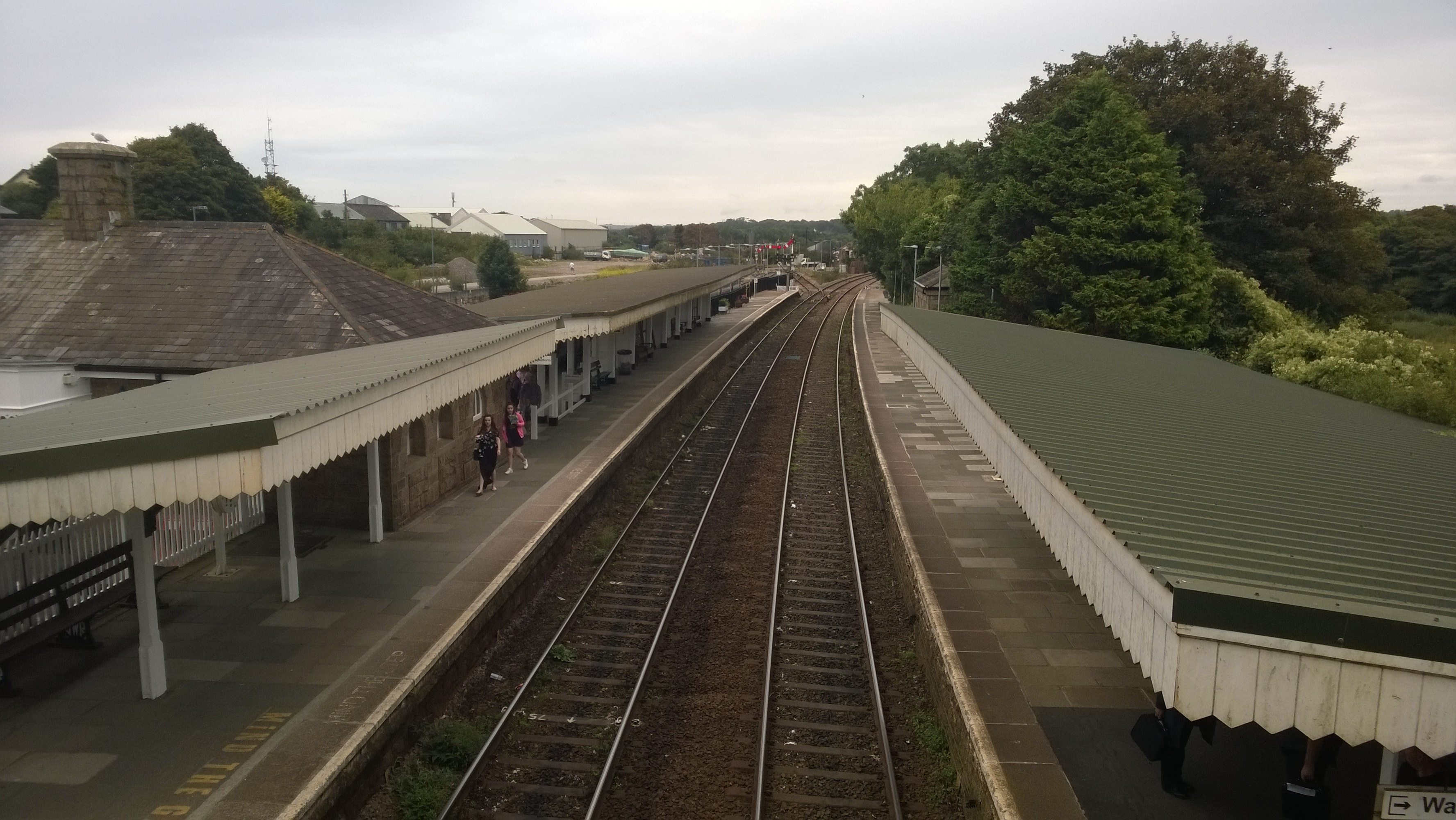 The mainline platforms, looking east towards Plymouth. Platform 1 is on the right, while Platform 2 is on the left. Platform 3, used by the St Ives shuttle services, is not shown in the picture; it is located behind the station building, to the left of the picture. The St Ives Bay Line branches off to the left just outside the station. Note that Platform 2 can also be used by the branch line trains, but Platform 1 cannot.